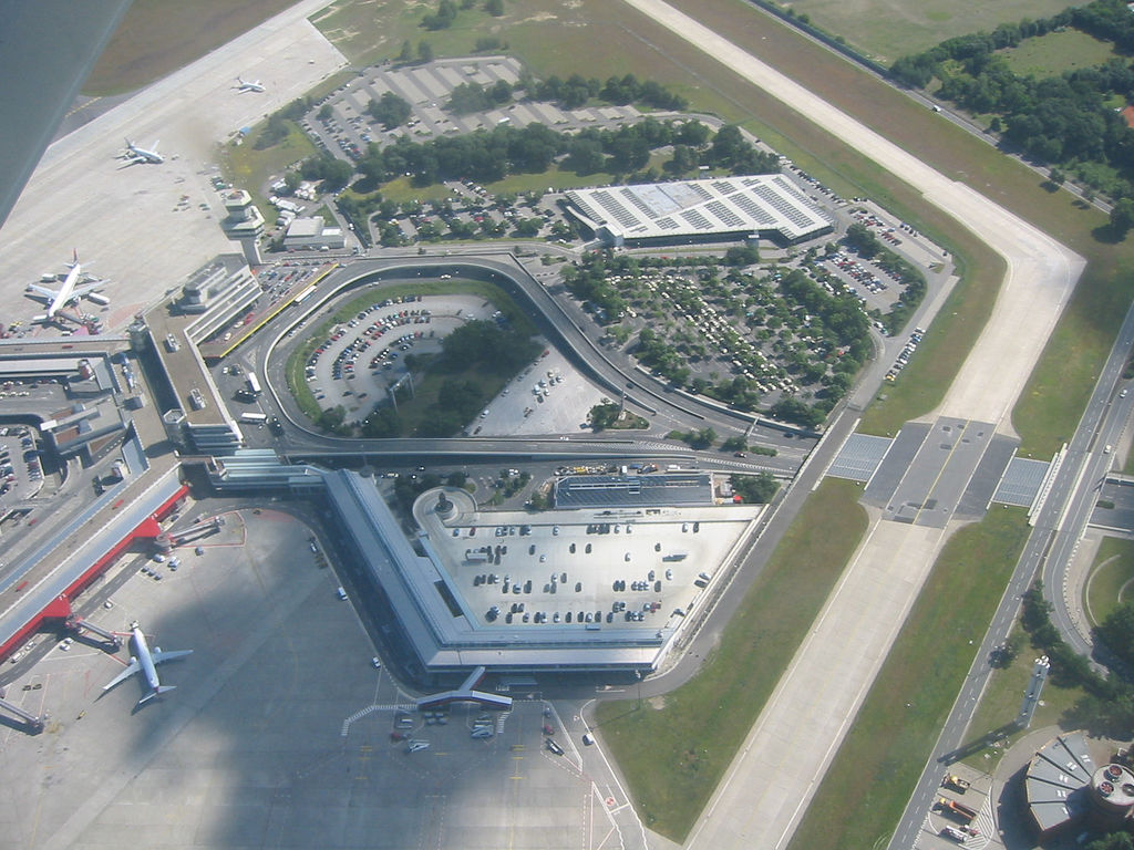 Aerial view of Berlin-Tegel International Airport.